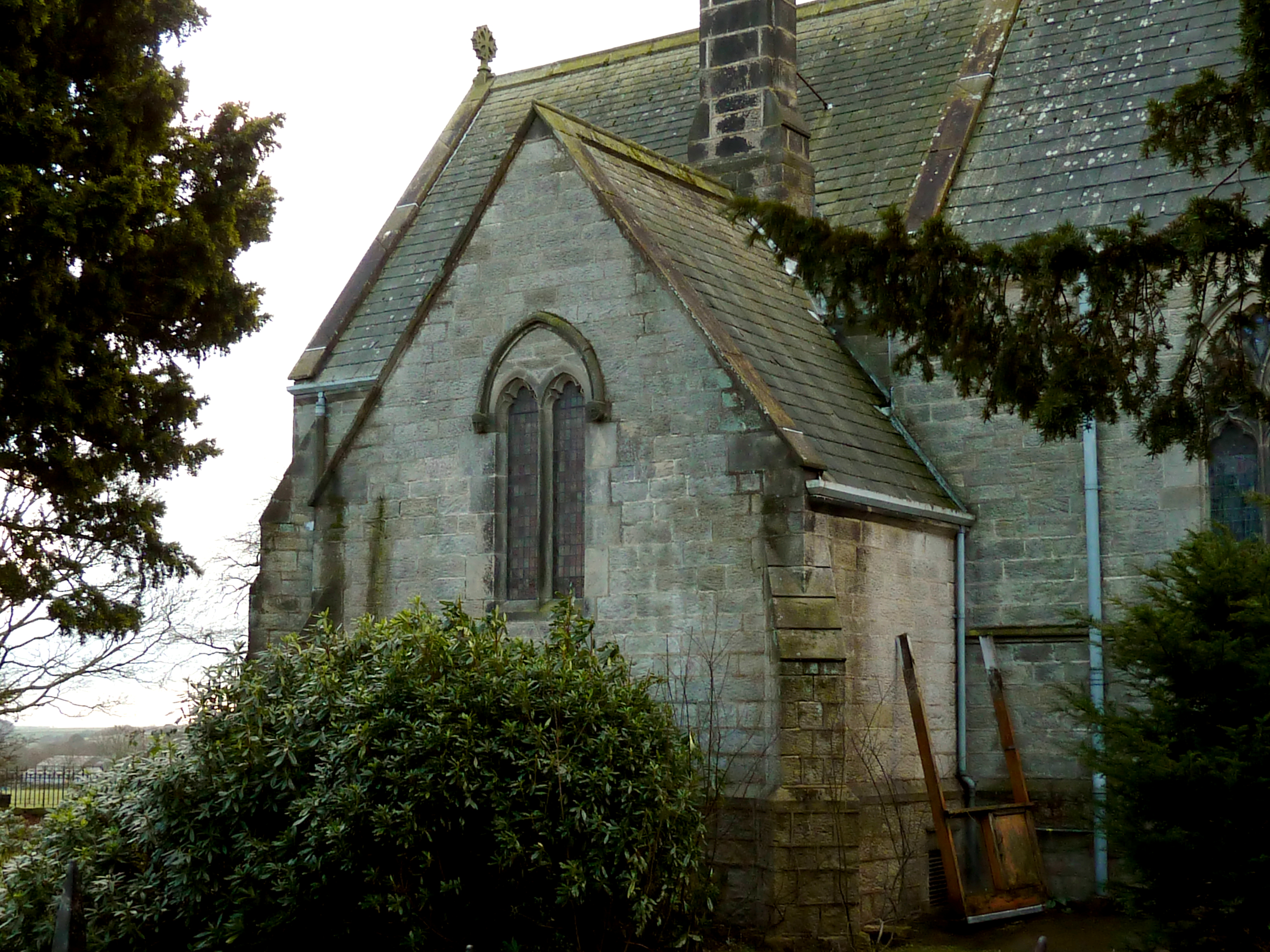 St Michael and All Angels Church, Beckwithshaw, North Yorkshire, England. Showing the housing for the organ, which projects from the north side of the chancel.